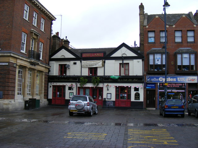 The Lamb Public House market Place Romford Located at 5 Market Place, Romford, Essex, RM1 3AB.It is mentioned back in 1681, although the present building dates from 1852-3 having been rebuilt following a fire.